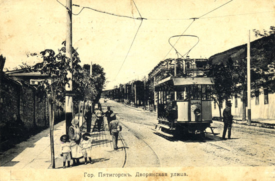 Tram in Pyatigorsk (Russia), Dvoryanskaya street.